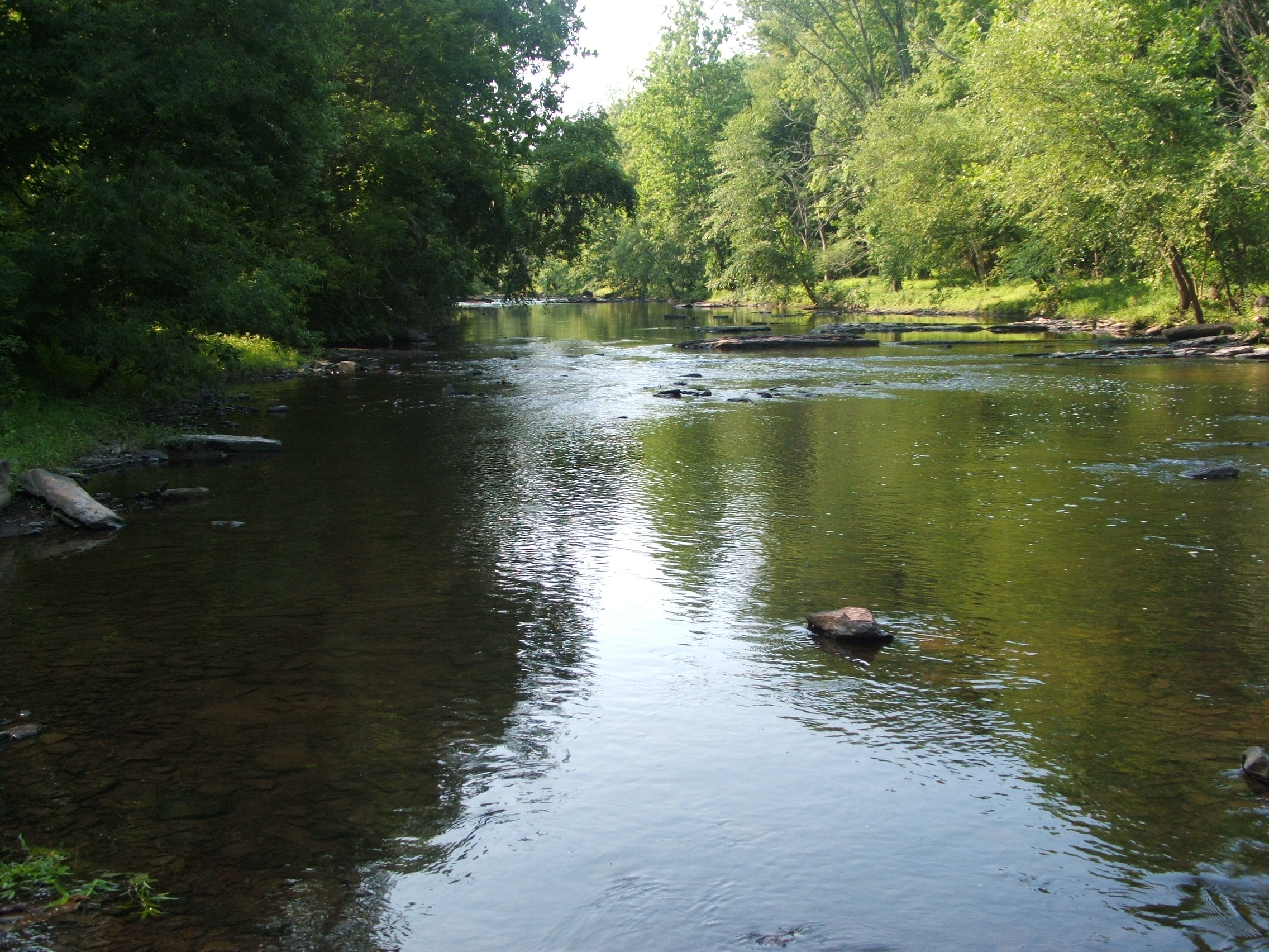 A typical view of Tohickon Creek from Bedminster Township.